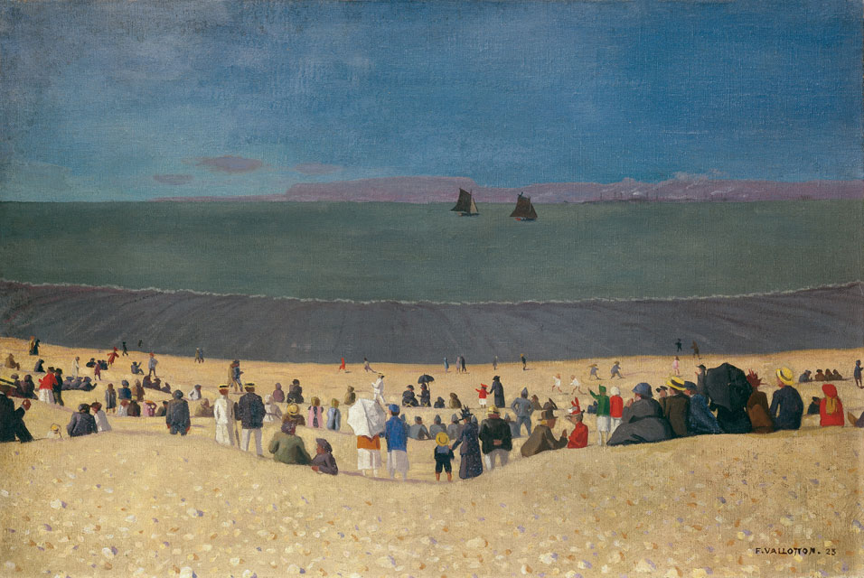 La plage à Honfleur by Félix Vallotton, 1919. Oil on canvas, 54 x 81 cm.